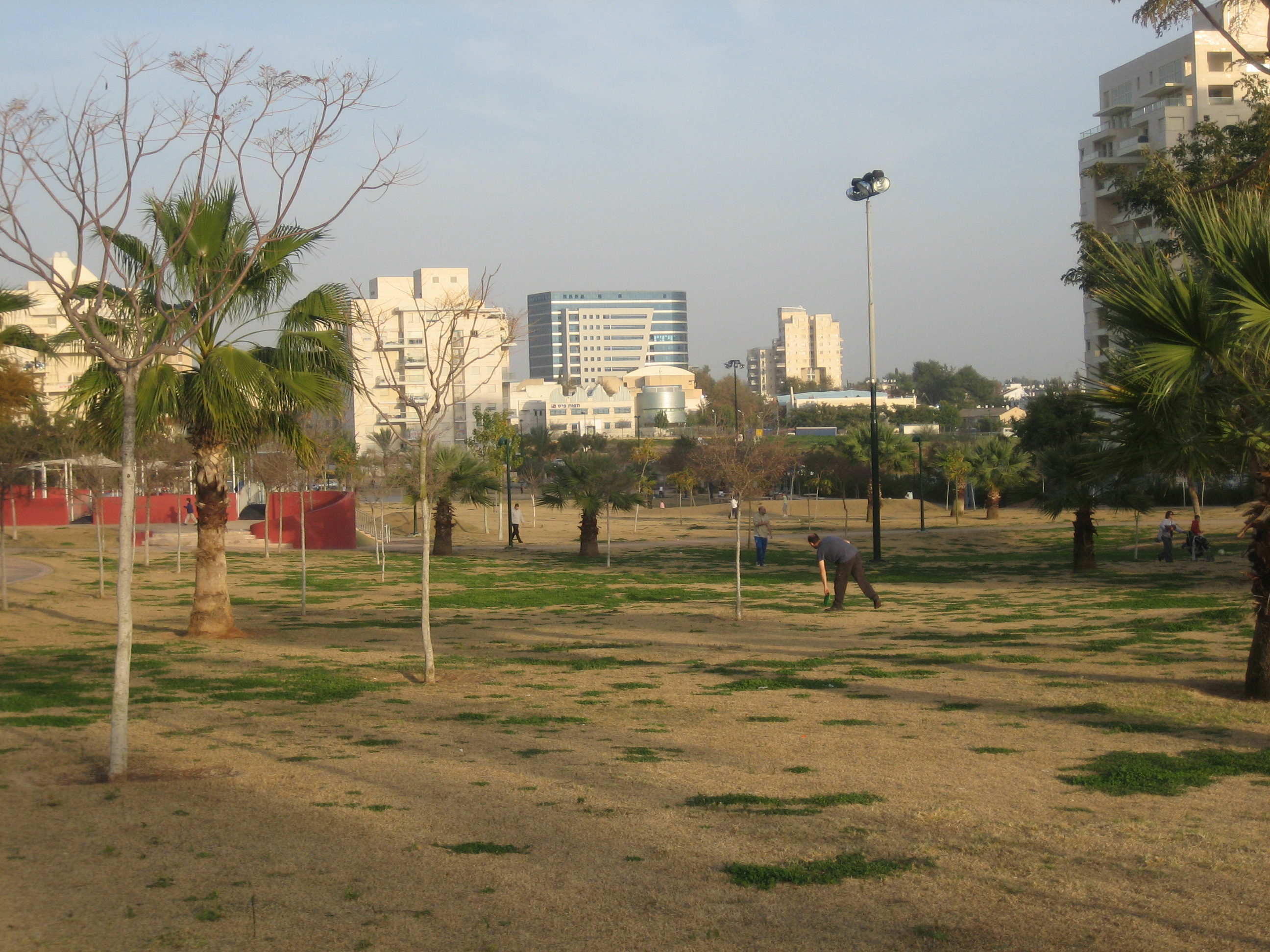 Kiryat Ono, Israel.